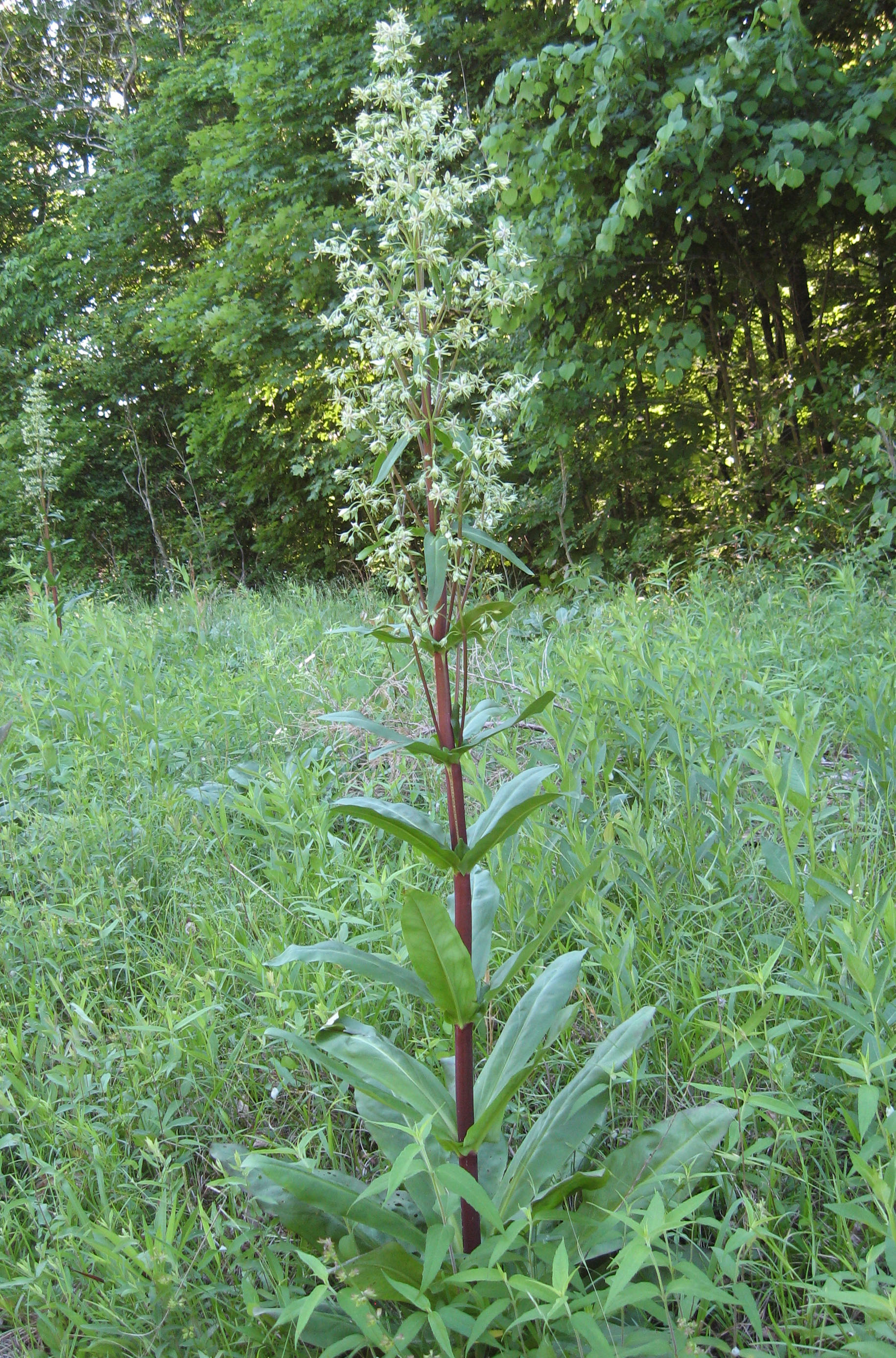 Frasera caroliniensis, prairie remnant in Butler County, Kentucky.